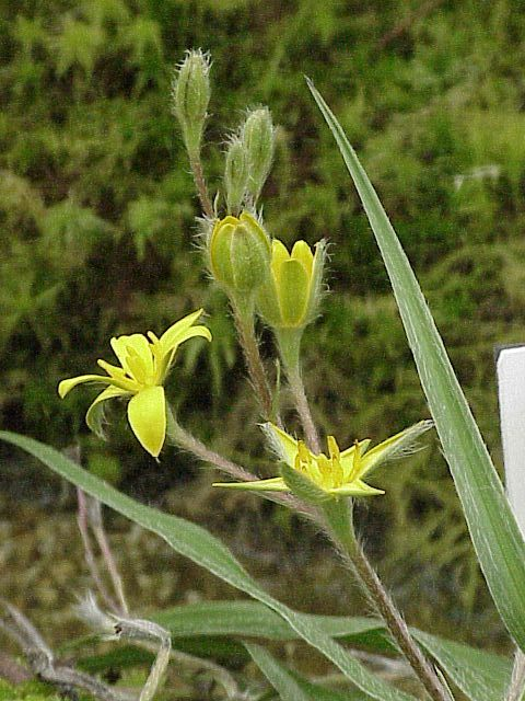 Name Hypoxis hemerocallidea Family Hypoxidaceae Image no. 1 Permission granted to use under GFDL by Kurt Stueber